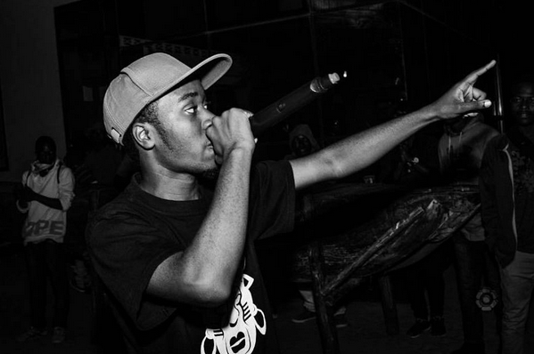 Dizasta panorama